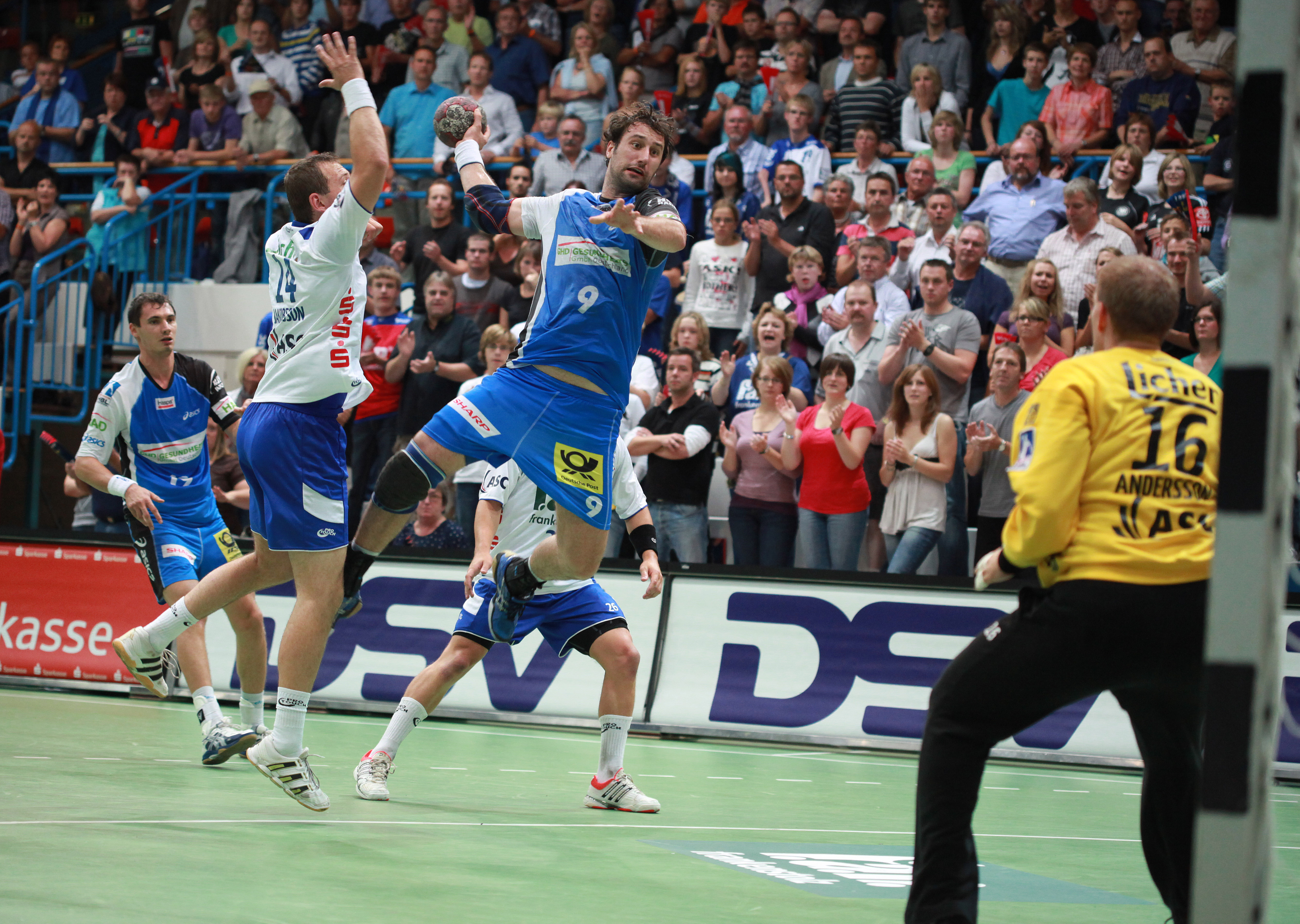 Igor Vori, Croatian handball player from HSV Hamburg, on September 6th, 2009 in the f.a.n. frankenstolz arena of Aschaffenburg, during the bundesliga match TV Großwallstadt vers. HSV Hamburg (24:27).